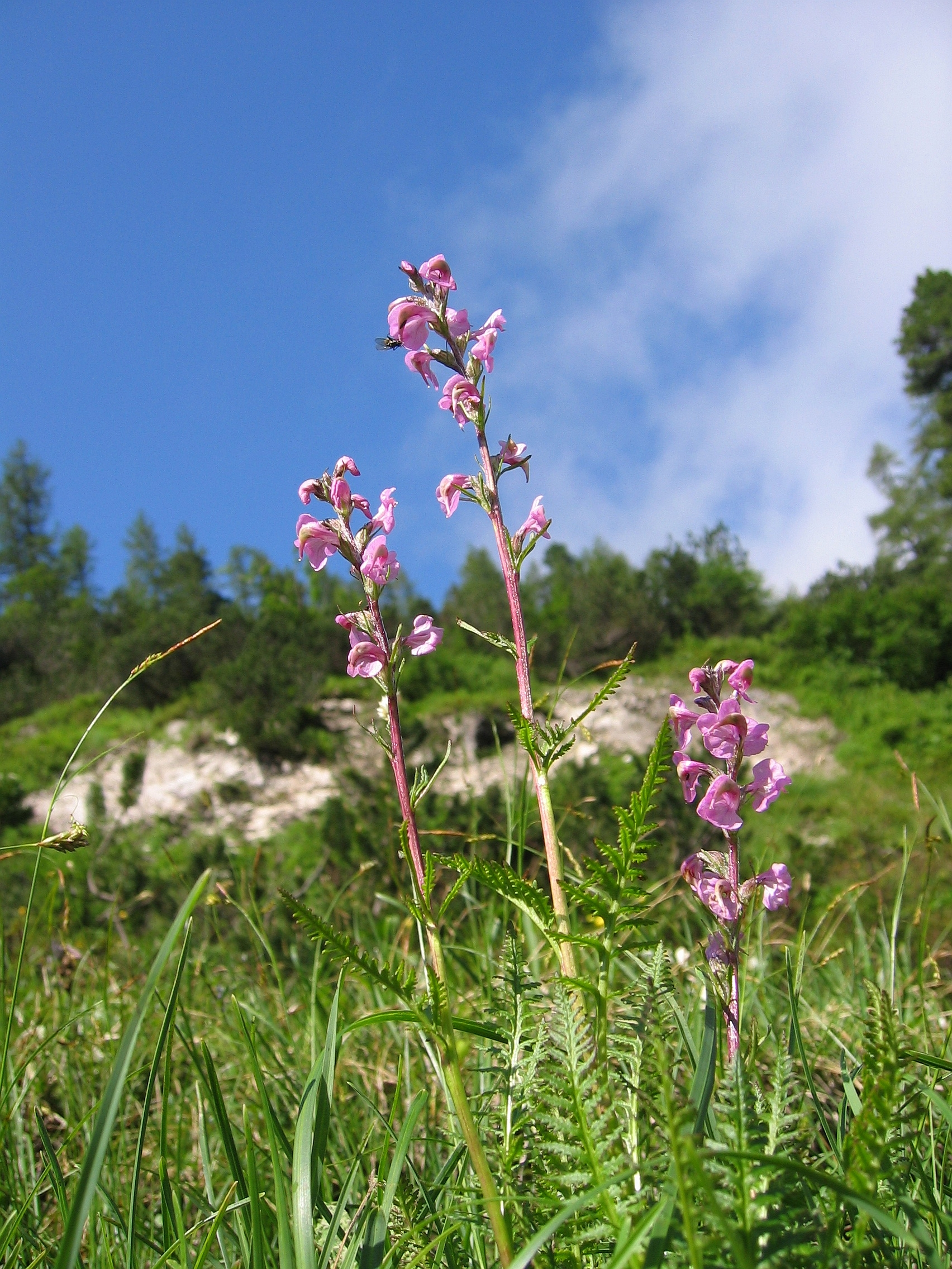 Pedicularis rostratospicata, Near Wildensee, Upper Austria, Austria